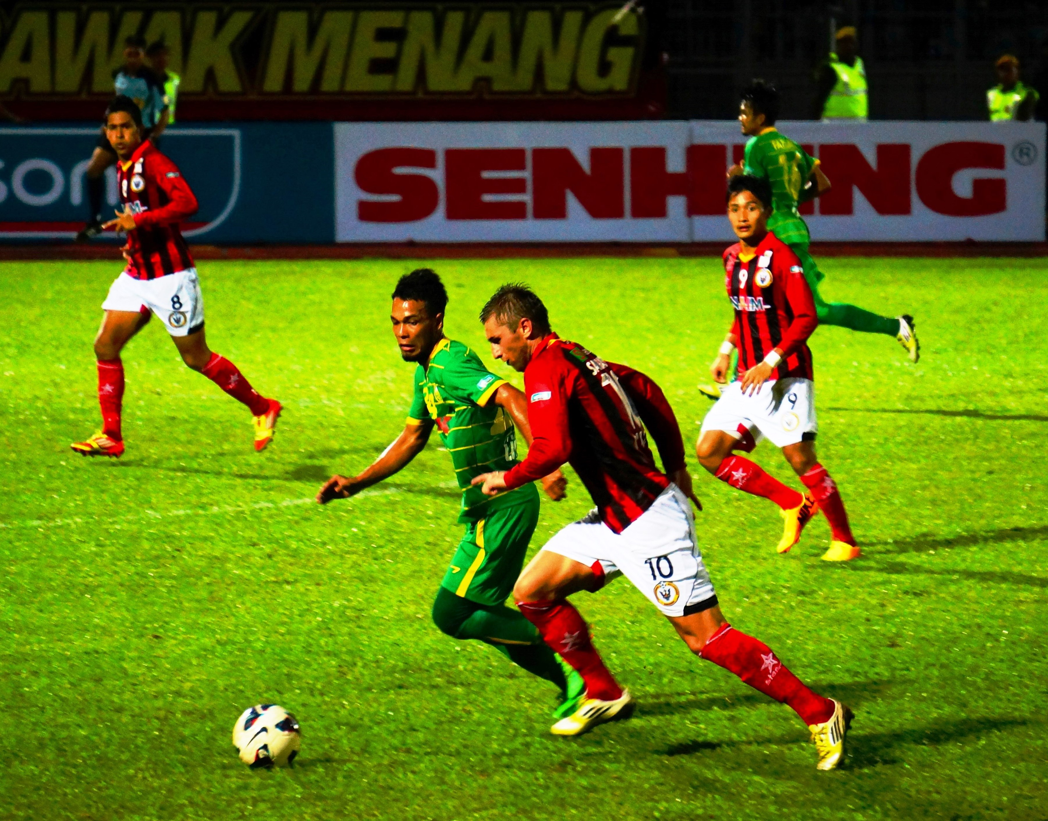 Salibasic in action for Sarawak in Malaysia Cup 2013 in a game vs Kedah FA